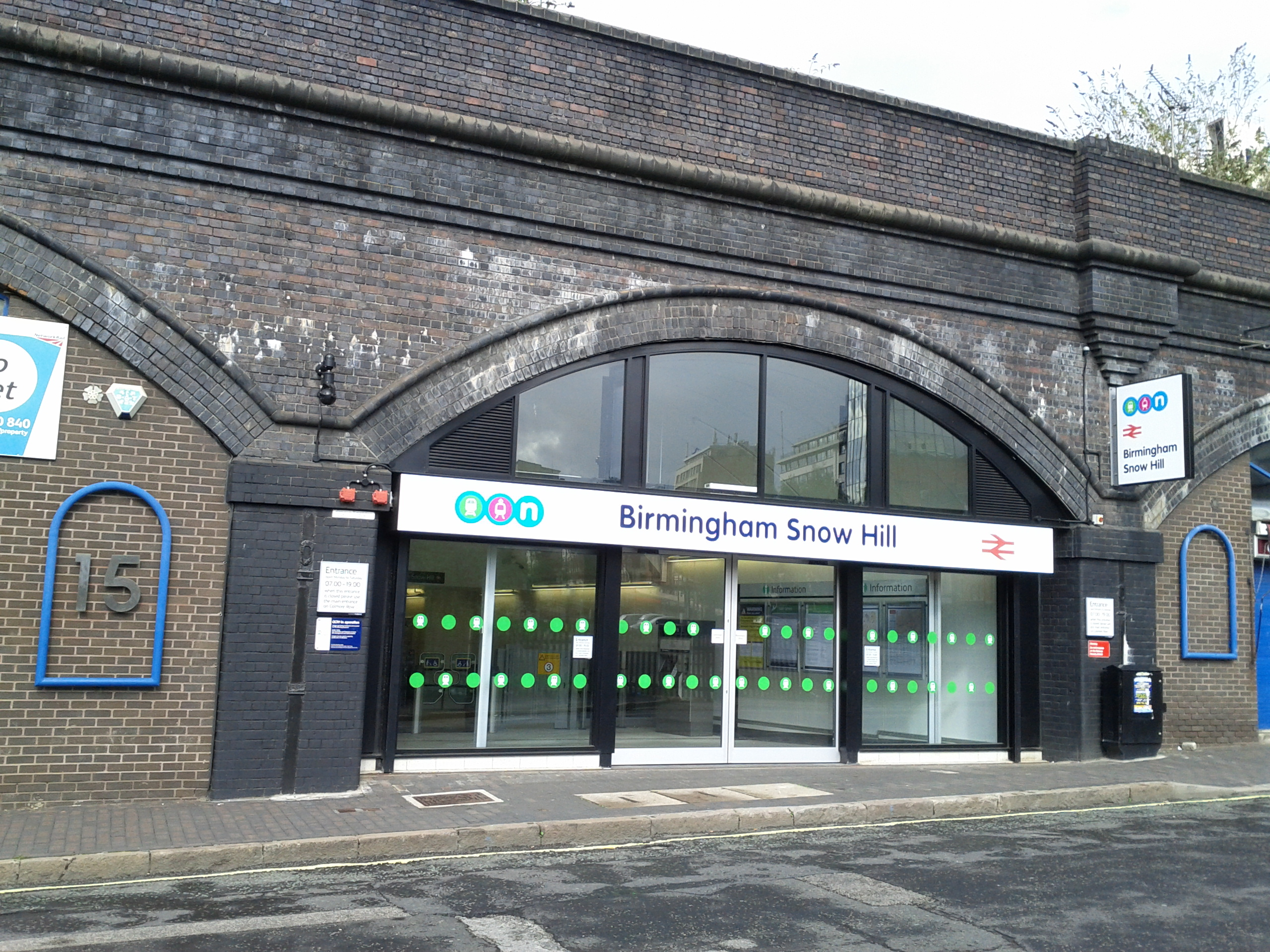 Livery Street entrance of Birmingham Snow Hill railway station, picture taken August 2011